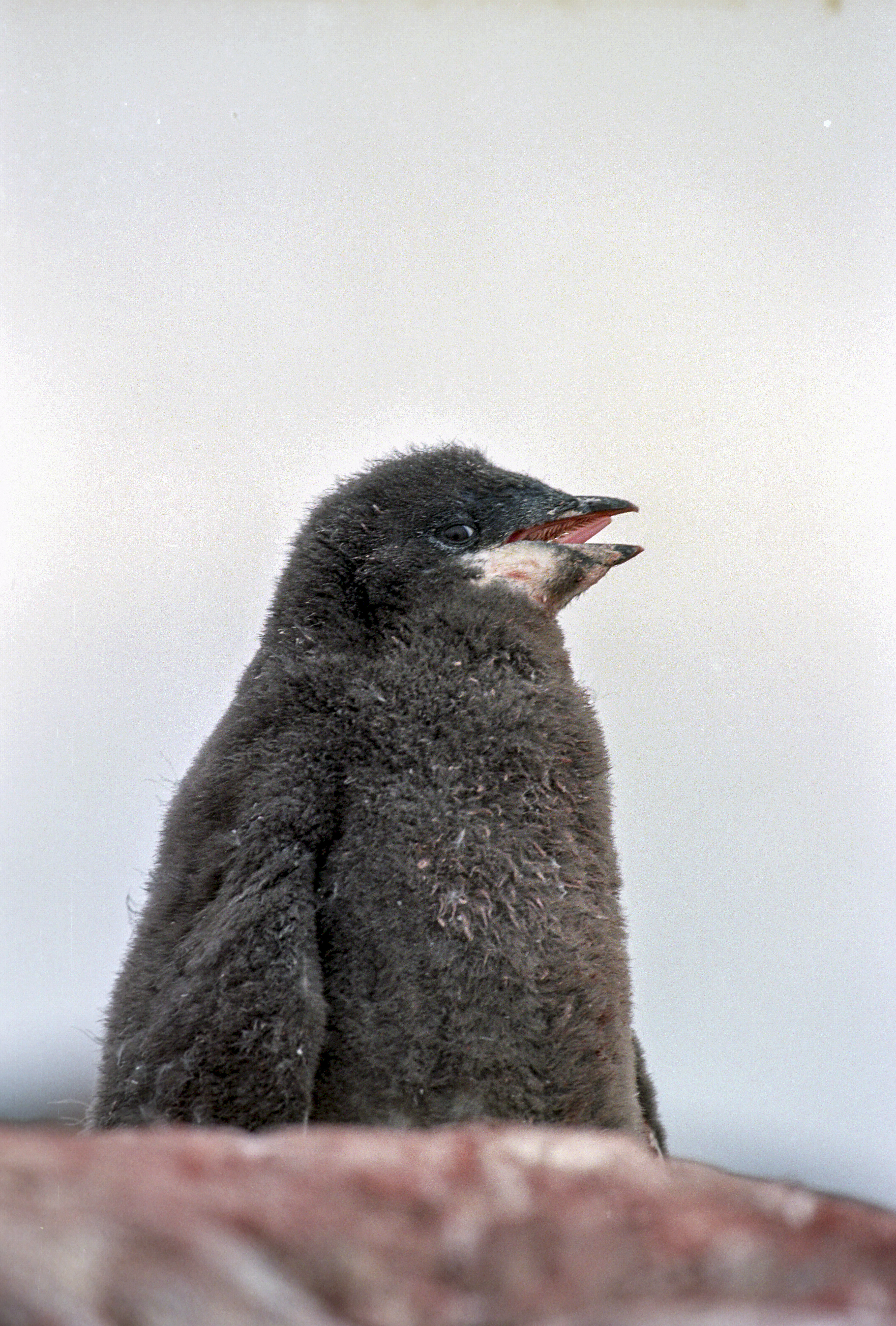 Adelie Penguin chick.